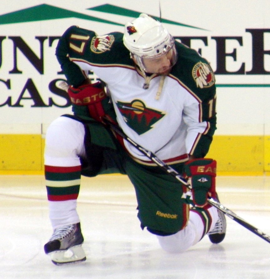 Minnesota Wild forward Petr Sýkora chats with former teammates on the Pittsburgh Penguins during warm-up, October 31, 2010 at Mellon Arena in Pittsburgh, PA.